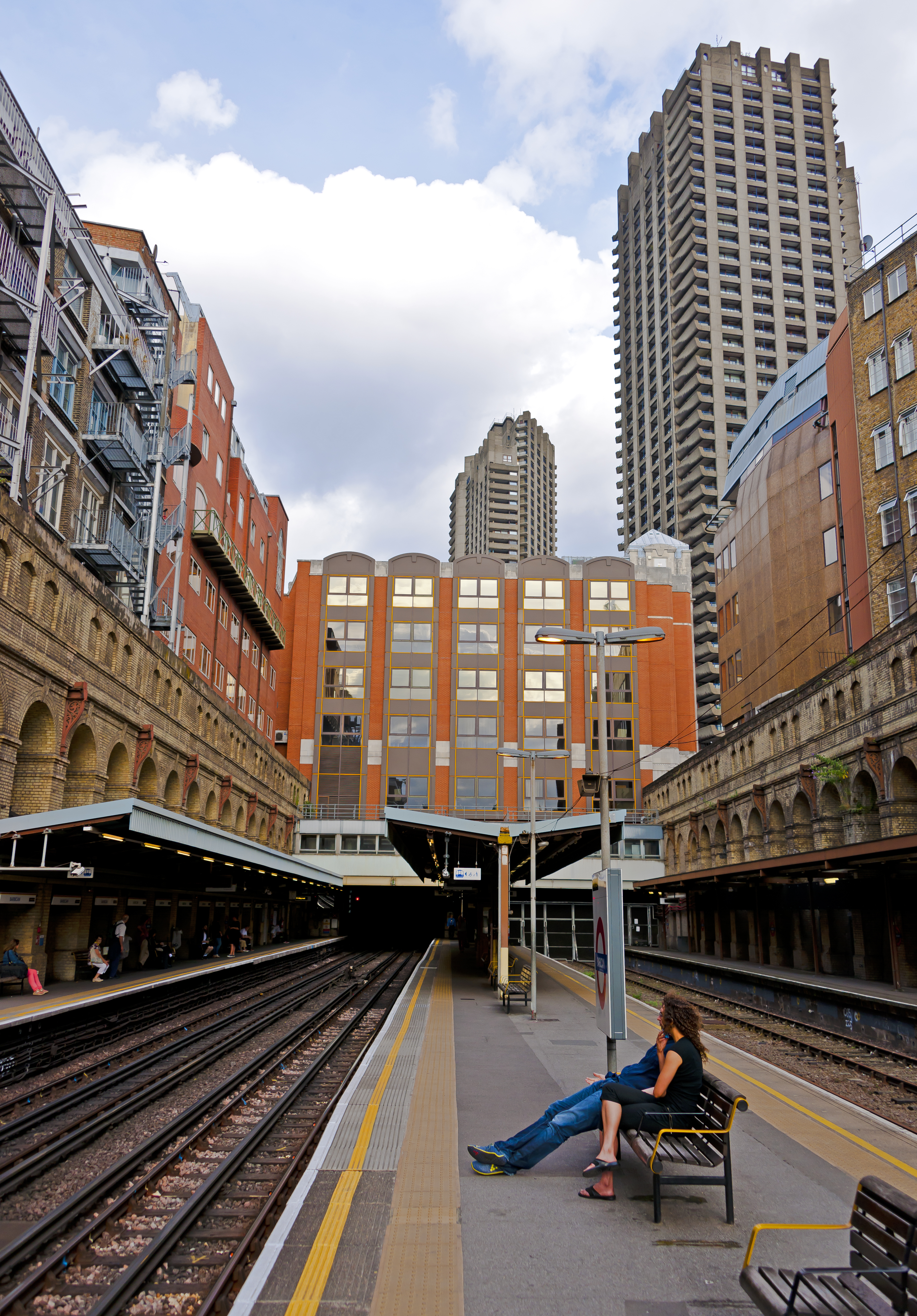 Looking down the platforms at Barbican tube station, London, with towers of the Barbican Estate in the background